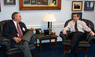 ony Modafferi (left) - Mayor of Village of Solvay – and Congressman Jim Walsh (R- New York) discuss public power and energy issues.